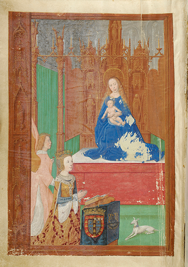 Frontispiece of the Breviary of Eleanor of Portugal, depicting the Queen (1458-1525) kneeling with hands joined before a prie-dieu draped with cloth decorated with her personal arms and device (a fishing net with true-lover's knots and tassels), in front of an altar on which is the Virgin Mary, holding Christ Child.